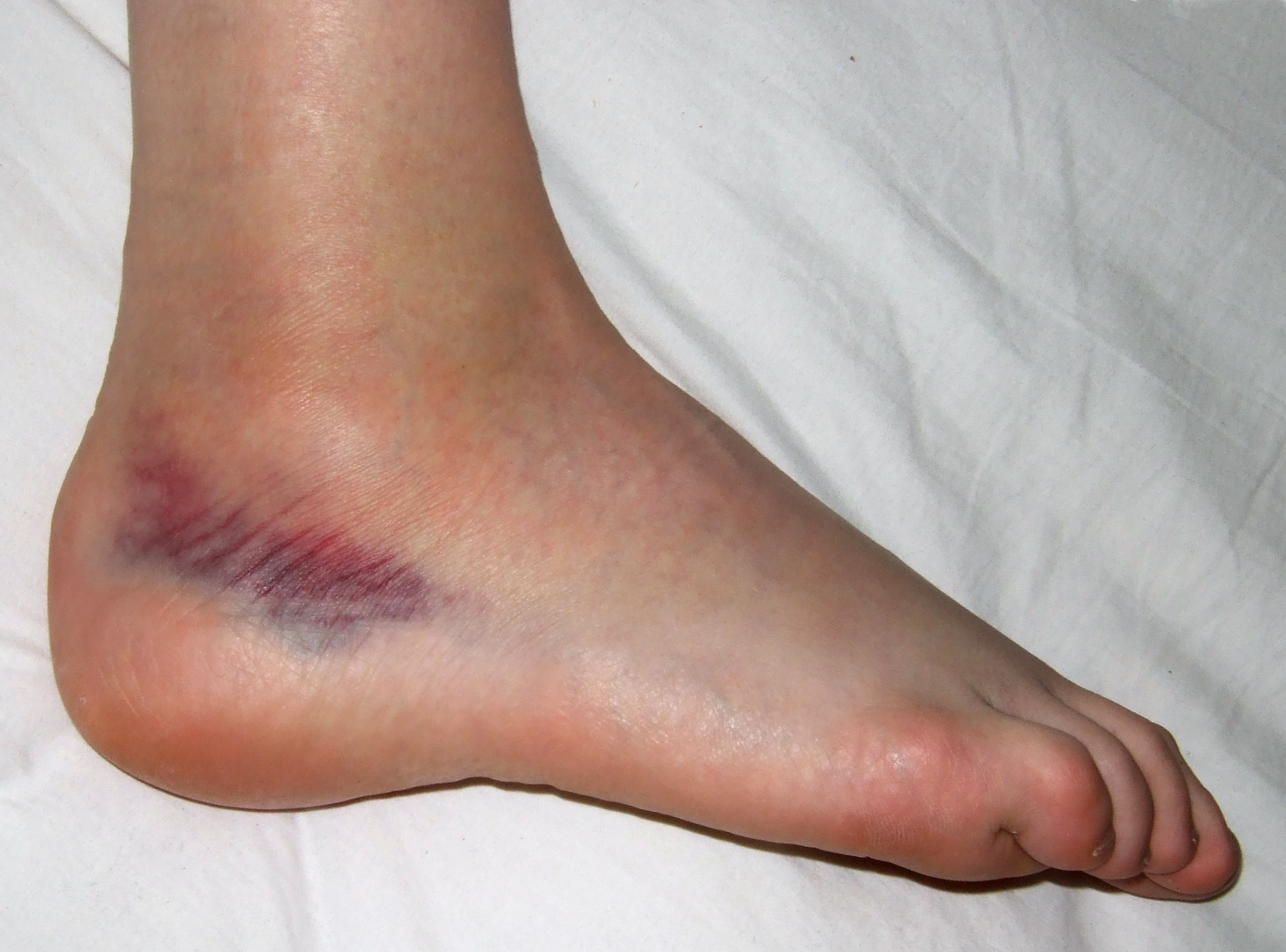 mild 2nd degree sprain, rotated inwards.